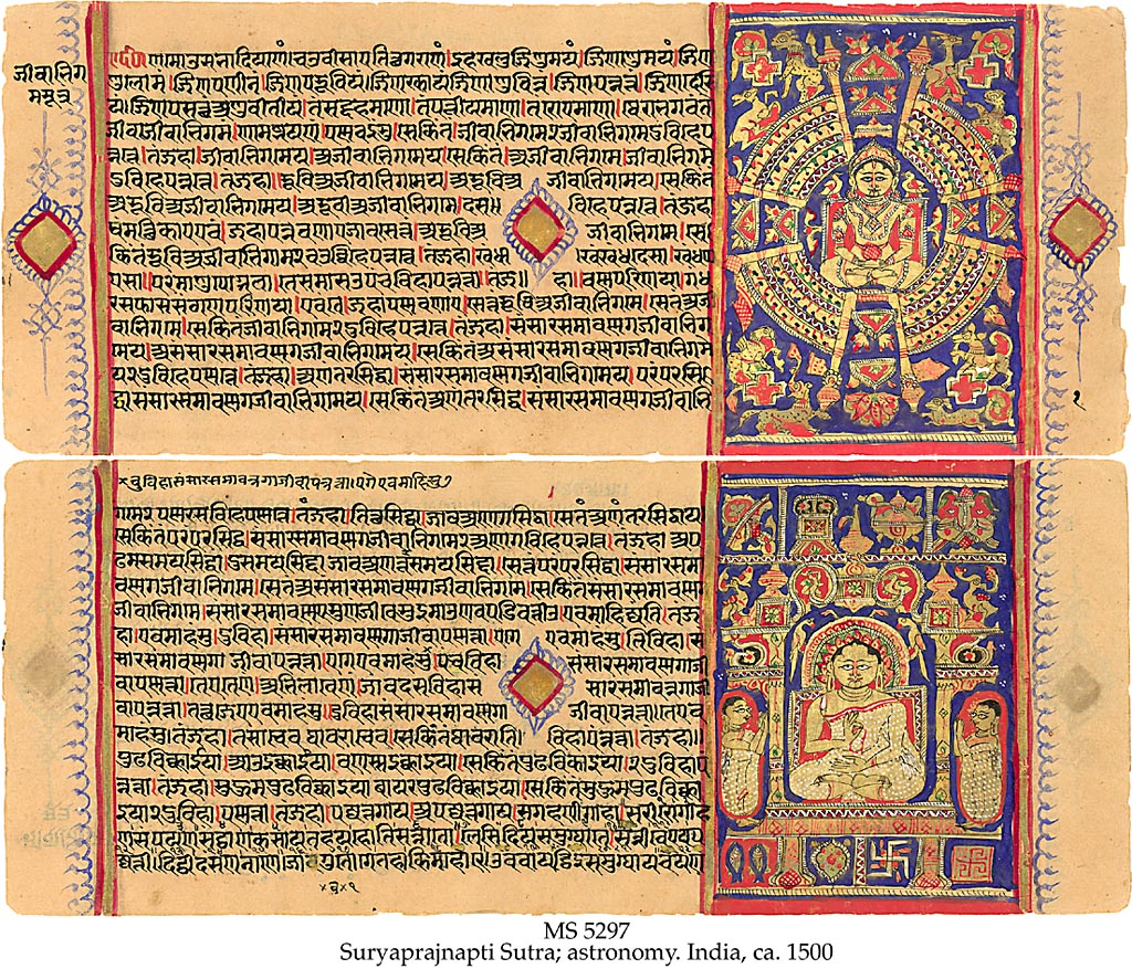 [1] MS in Jain prakrit on paper, Western India, ca. 1500, 105 ff. (complete), 13x31 cm, single column, (10x26 cm), 15 lines in Devanagari book script, 2 miniatures in gold, red and lapiz lazuli . The Suryaprajnaptisutra, an astronomical work dating to the 3rd or 4th c. BC, constitutes on of the classics of the Jain Svetambara sect and gives information on the sun, moon and planets and their motions. As in this MS, copies of the work generally only include 2 illustrations on the opening pages, one of Mahavira, the last and most celebrated of the Jinas, teaching to all creatures, and the other of his greatest disciple, Gotama. The prosperity of the Jain community in this period is reflected in the expensive materials, especially gold and lapis lazuli, that were used in luxury MSS such as this one.